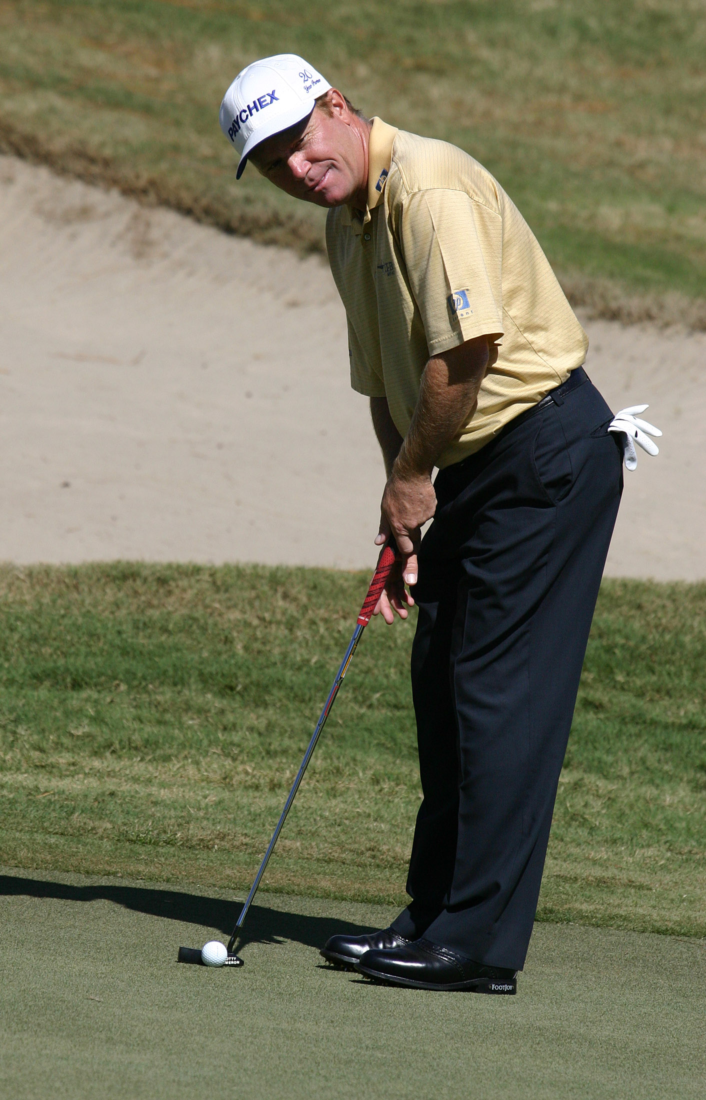 Jeff Sluman at the 2006 Chrysler Championship PGA tournament, practice round.